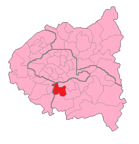 Map of Val-de-Marne's 11th constituency shown within Ile-de-France (Petite Couronne)